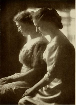 Gerhard Sisters, Gerhard Sisters Photo, Johnson, Anne (André) "Mrs. Charles P. Johnson", 1871-. Notable women of St. Louis, 1914; (Kindle Location 4402). [St. Louis, Woodward.]